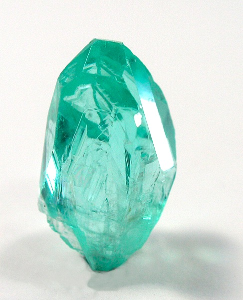 Phosphophyllite Locality: Unificada Mine, Cerro de Potosí (Cerro Rico), Potosí City, Potosí Department, Bolivia (Locality at ) Size: thumbnail, 1.7 x 1 x 0.9 cm Phosphophyllite An incredibly bright, lustrous, beautiful GEM crystal of twinned phospho from this old locality. This is one of the holy grails of any mineral collector, to own. Complete, though with a few insignificant contatcs and very minor damage, this one is a great one for the sheer pizzazz of its stellar color and lustre. In person, its more gemmy.